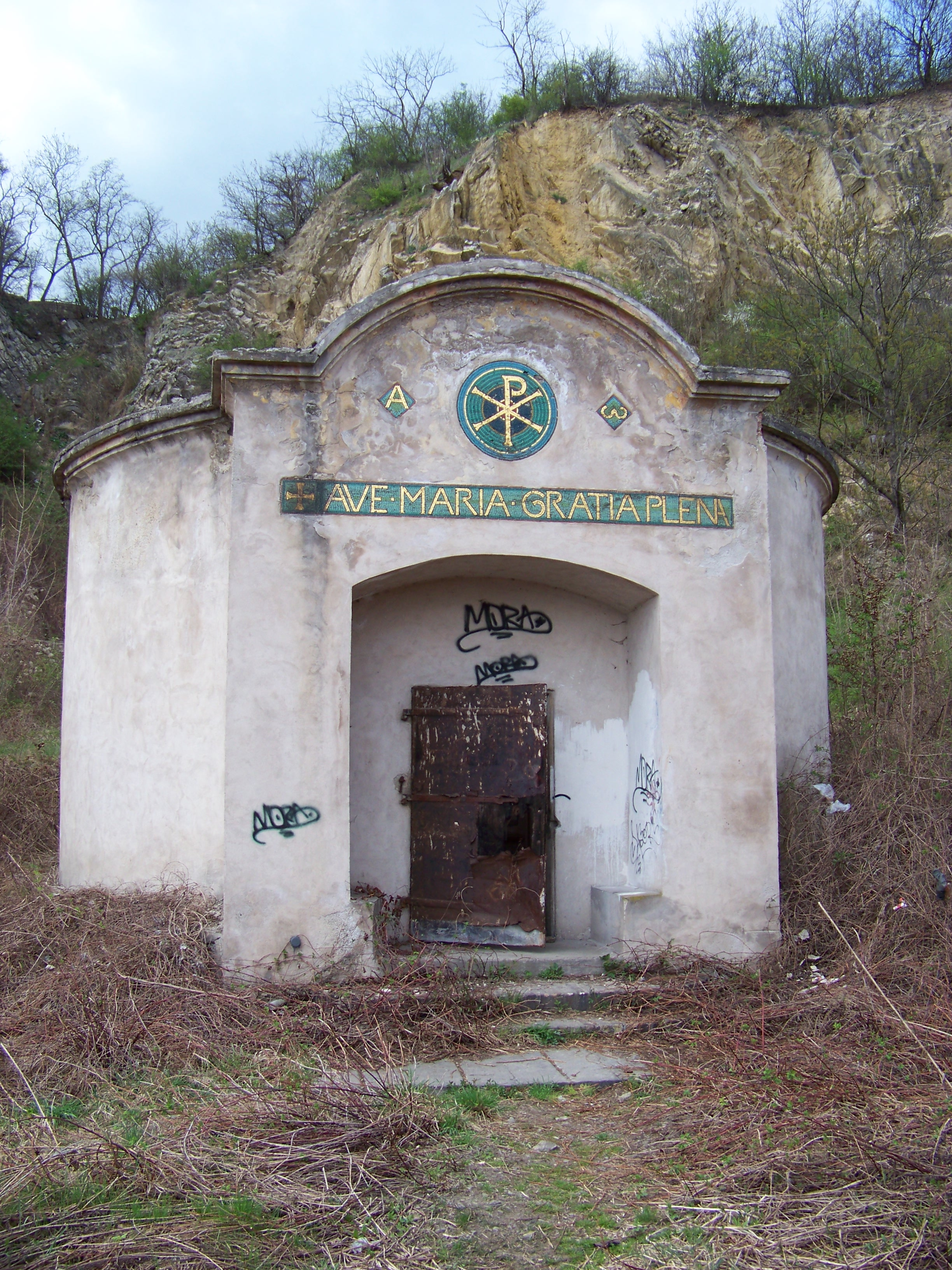 Prague-Hlubočepy, the Czech Republic. Virgo Maria Dolorosa chapel near Barrandov Rocks.